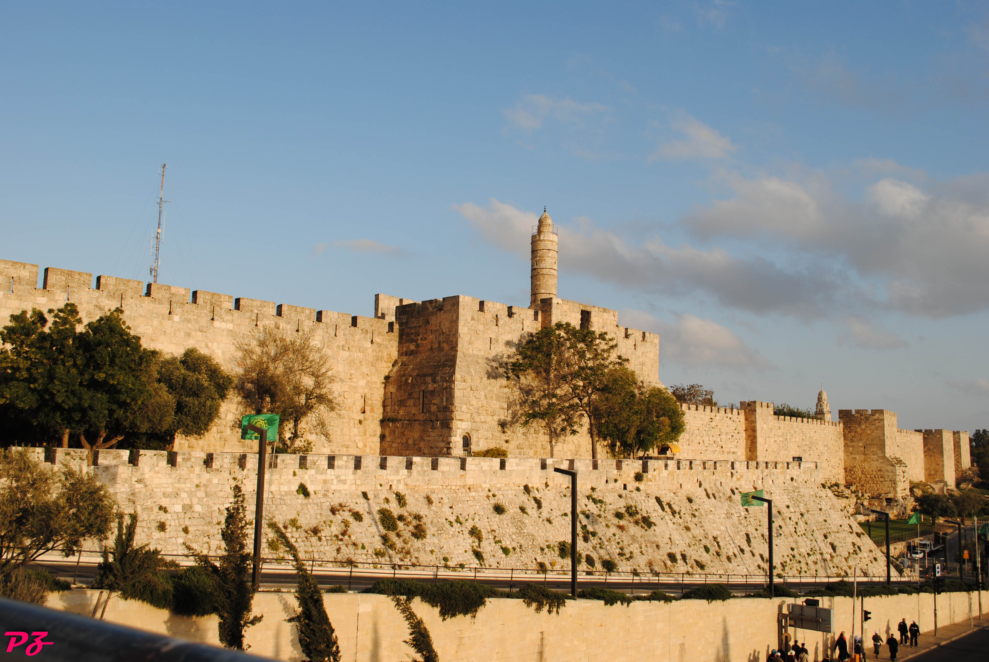 Tower of David.